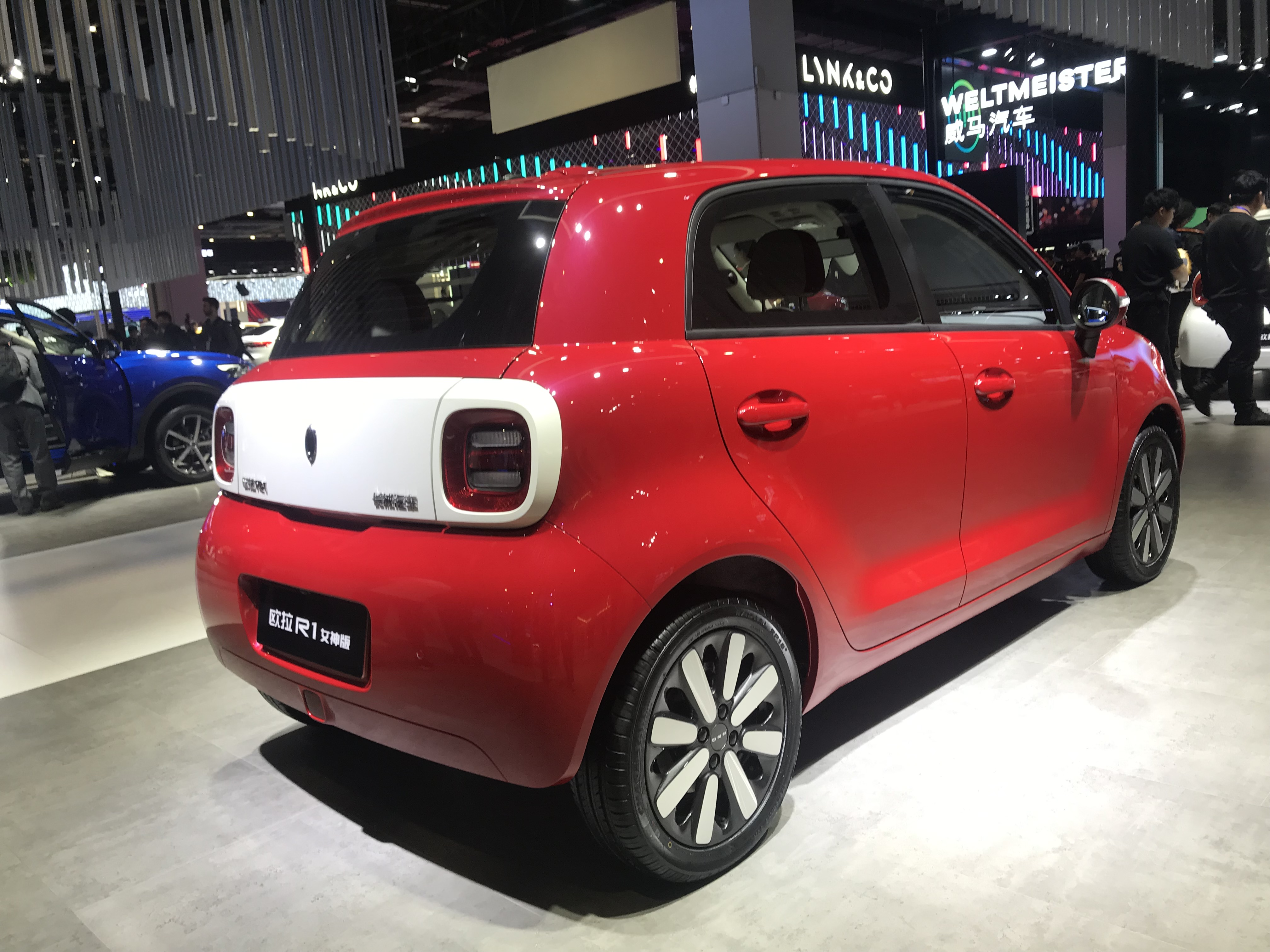 Ora R1 rear